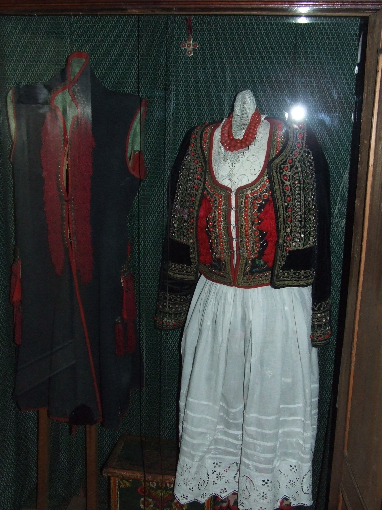 Lucjan Rydel house